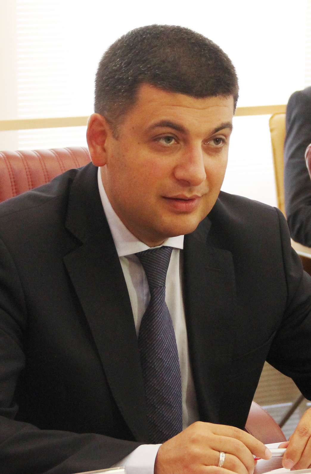 Volodymyr Groisman